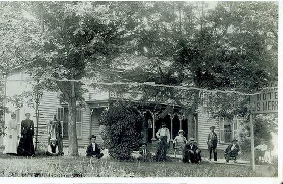 The American Hotel in Gorin, Missouri. This hotel served rail travelers nd other visitors to the town. It was owned by James S Merrell and Ellen Melissa Payne Merrell. Year unknown. Est. 1895-1905. Photo courtesy of Evan Bench via Flickr